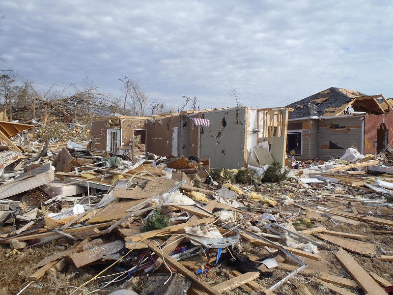 A home mostly destroyed by an EF3 tornado in Center Point, Alabama